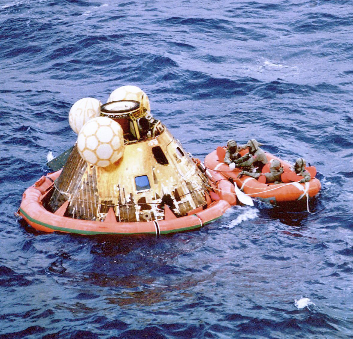 Apollo 11 crew and a Navy diver await pickup from the USS Hornet after splashdown.